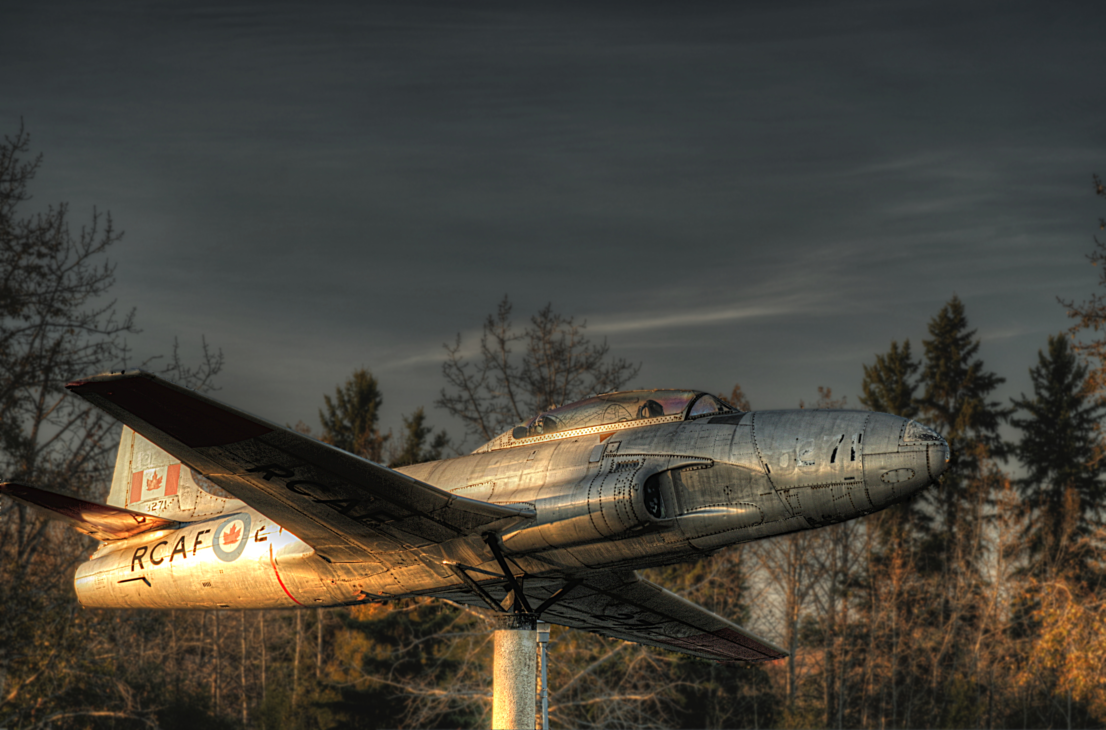 An RCAF Canadair CT-133 Silver Star mounted for display by Millenium Park in St. Albert, Alberta, Canada.